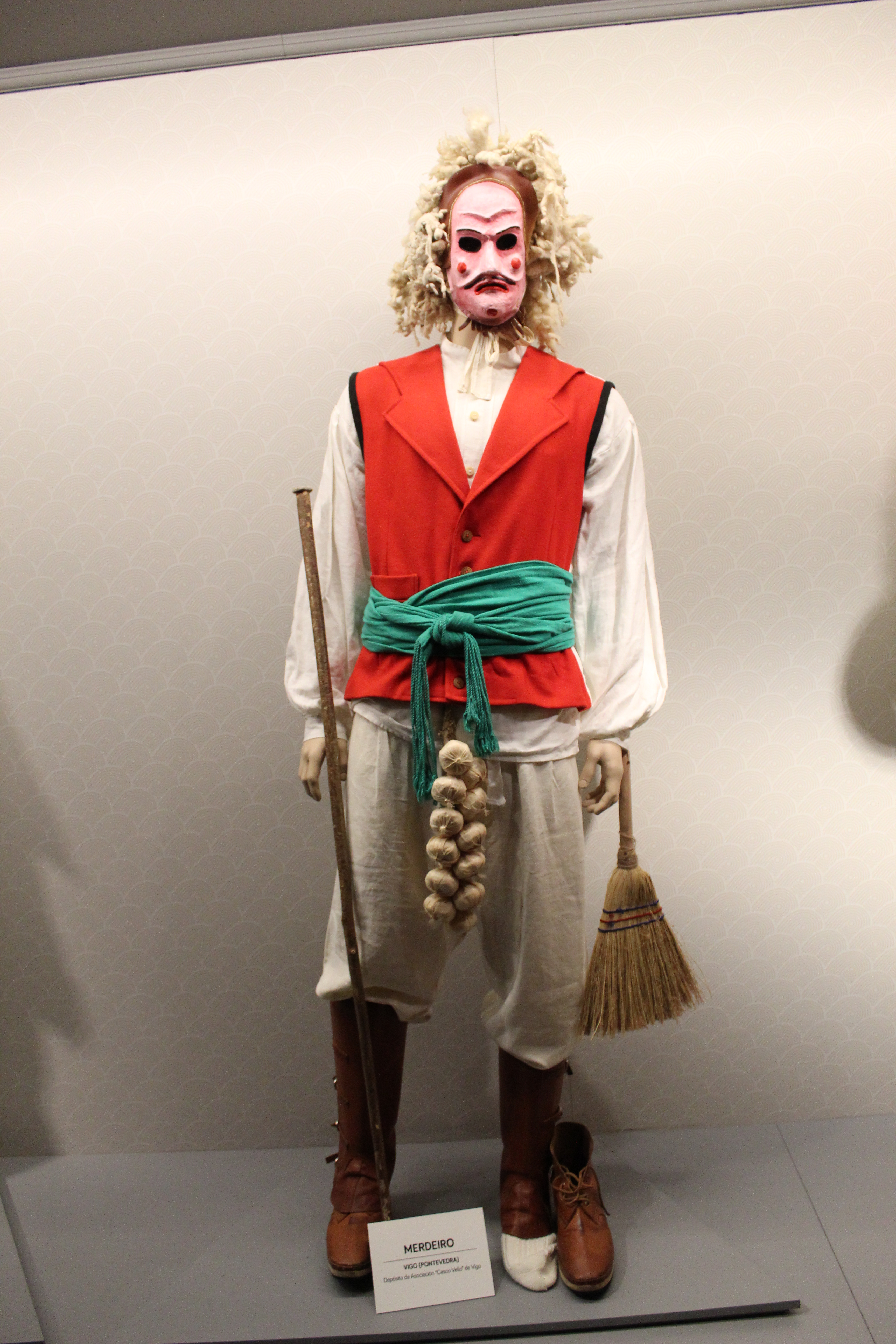 Traxe típico do Entroido de Vigo